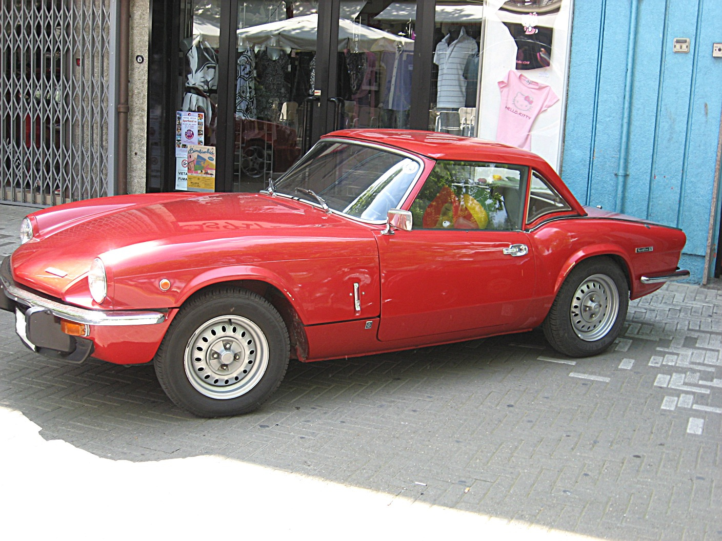 Subject:Triumph Spitfire 1500 Date:May 4th, 2008 Event: L’Isola dei Motori 2008 Place/Country: Bellaria (RN), Italy I release all rights in the public domain.